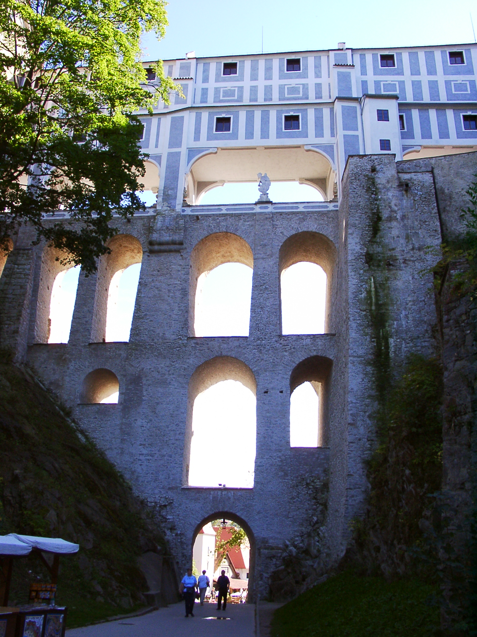 Bridge at the castle of Český Krumlov, seen from the north. Mantelbrücke in Krumau, von Norden gesehen.